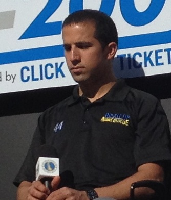 NASCAR Nationwide Series driver Paulie Harraka giving an interview at Dover International Speedway, May 30, 2014. Cropped from original image to focus on Harraka.